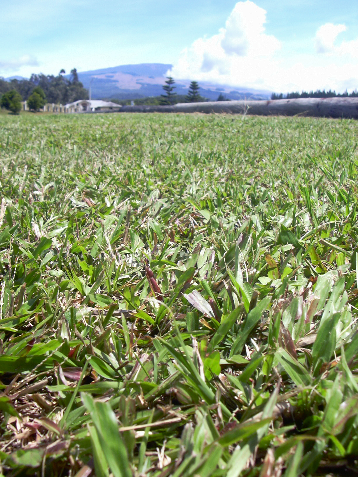 Axonopus compressus (habit). Location: Maui, Kauhikoa hill